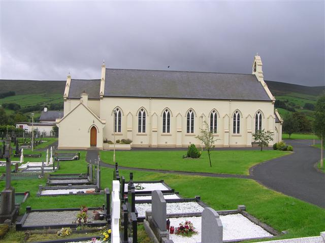 St Brigid's RC Church, Cranagh. It is in the centre of the village.